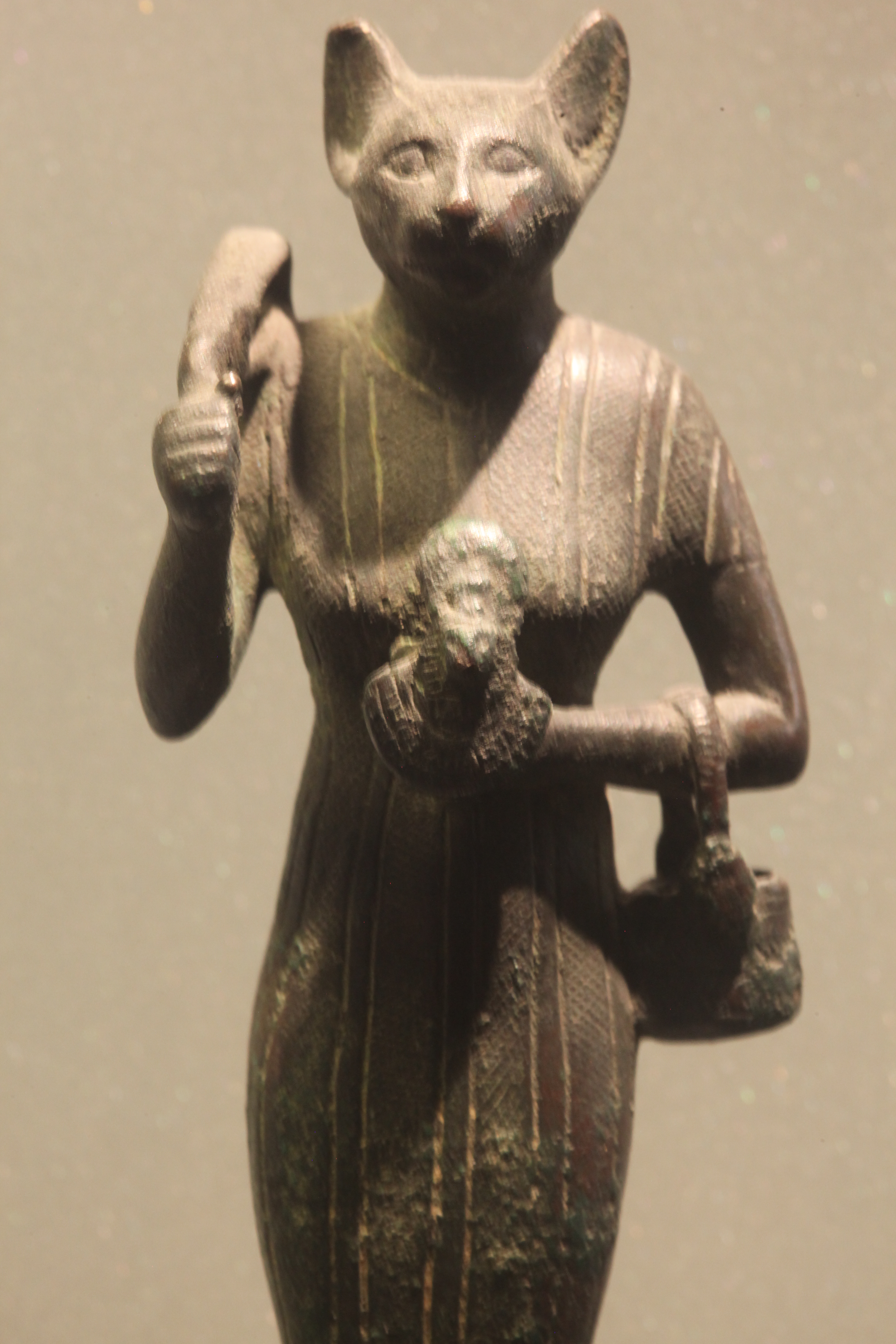 Bastet playing the sistrum. Possibly AF 325 [1]. Clearly neither E 4252 nor N 3857